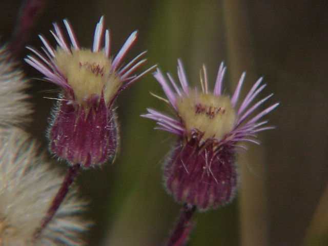 Species: Erigeron acre Family: Compositae Image No. 9